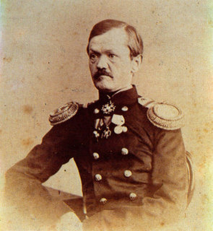 Aleksandr Petrov (1828—1899), Russian admiral